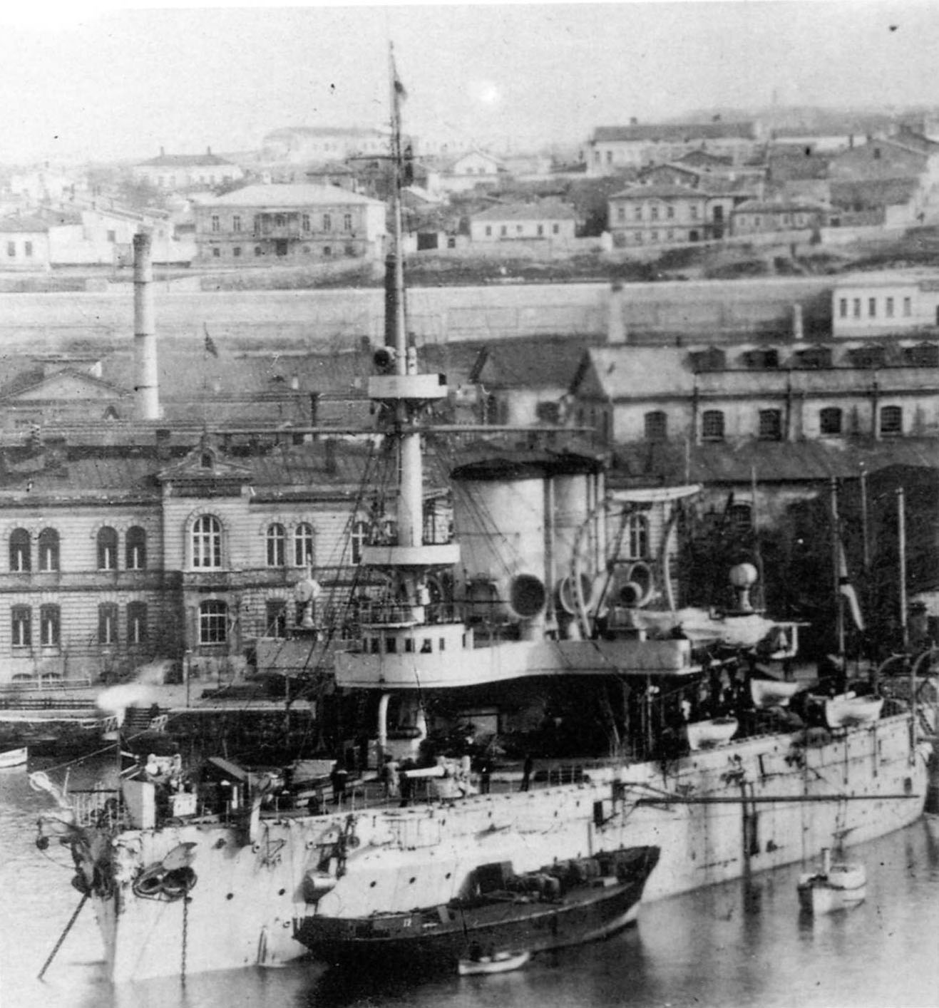 Imperial Russian battleship Sinop in Sevastopol.